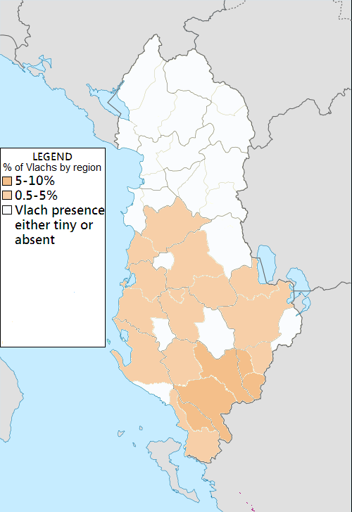 This map outlines the regional distribution of ethnic Greeks in Albania around the turn of the 20th century, when the Ottoman Empire was collapsing. Main sources used: 1. The Ottomon census of 1908, with data published in Destani and Psomas' works. 2. The Italian-run South Albanian census of 1913, with data published in Destani and Psomas' works. While many people believe it probably drastically undercounted the number of Greeks and overcounted Albanians, even the generally pro-Greek Psomas notes that it is the most objective source available with regards to the Aromanians (which were neglected in both the Ottoman and the Greek wartime statistics about the area, both of which tended to count Aromanians as Greek). 3. The Albanian census of 1918, with data referenced in Siegfriend, Seiner and etc. Note: 1. I couldn't find info for the exact boundary between the Leskovik and Erseka kazas, so the line drawn here is an approximation. 2. Due to the lack of comprehensive data on Albania from that time, and the conflicting figures in many different sources, the percentages in many regions are approximations. Thus, this map should not be taken as an absolute measure.